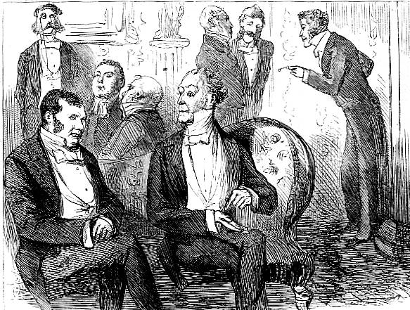 Little Dorrit, A party at Mr Merdle's house